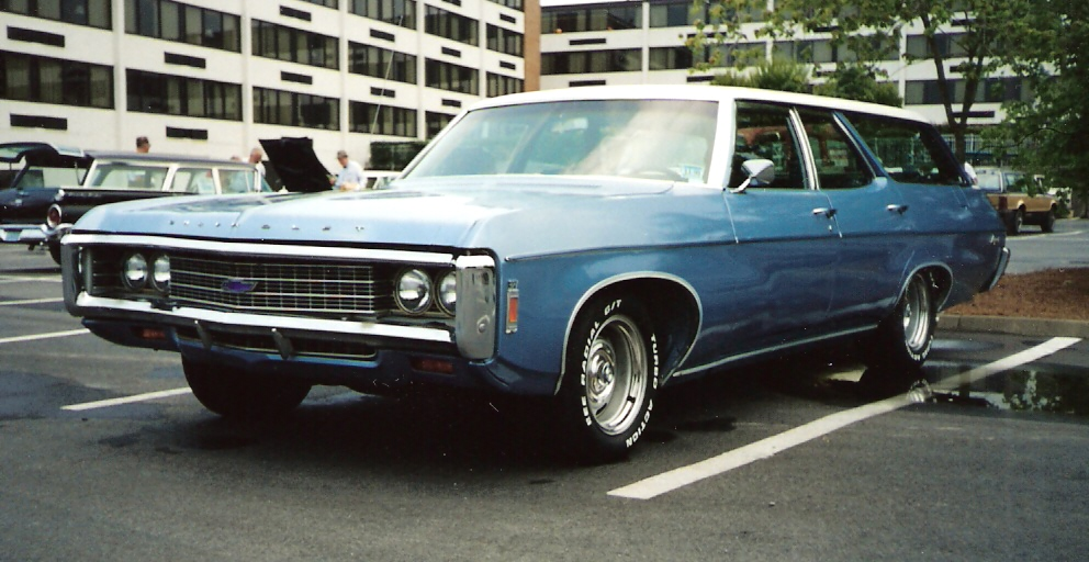 1969 Chevrolet Kingswood station wagon I photographed in Charlotte, North Carolina in June 1999.